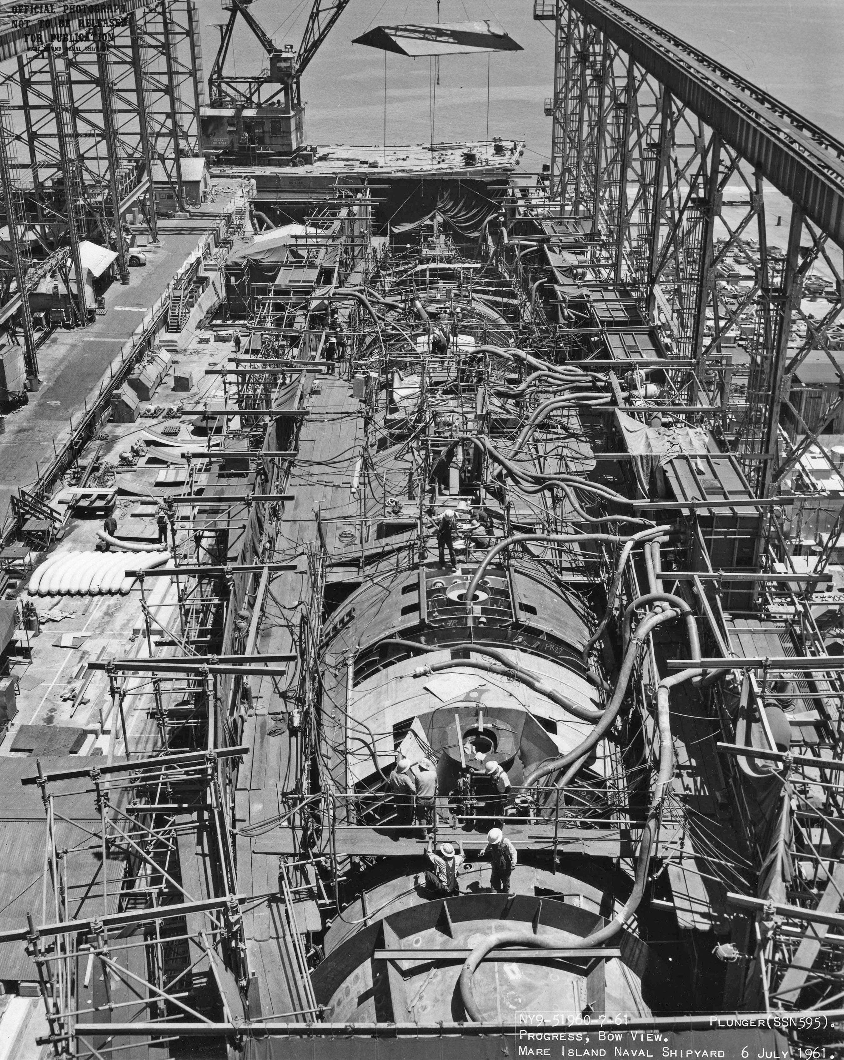 Progress view looking toward the stern of Plunger (SSN-595) on the ways at Mare Island on 6 July 1961. YD-172 is in the background still in her old US Army BD-6068 paint job.